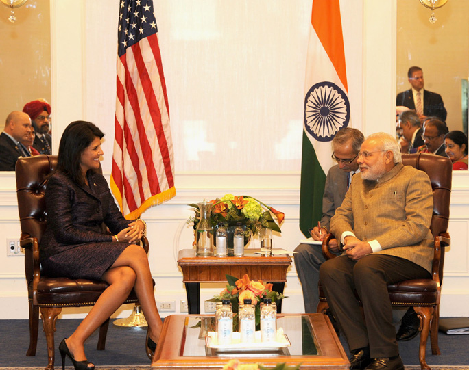 PM meets Governor of South Carolina in New York